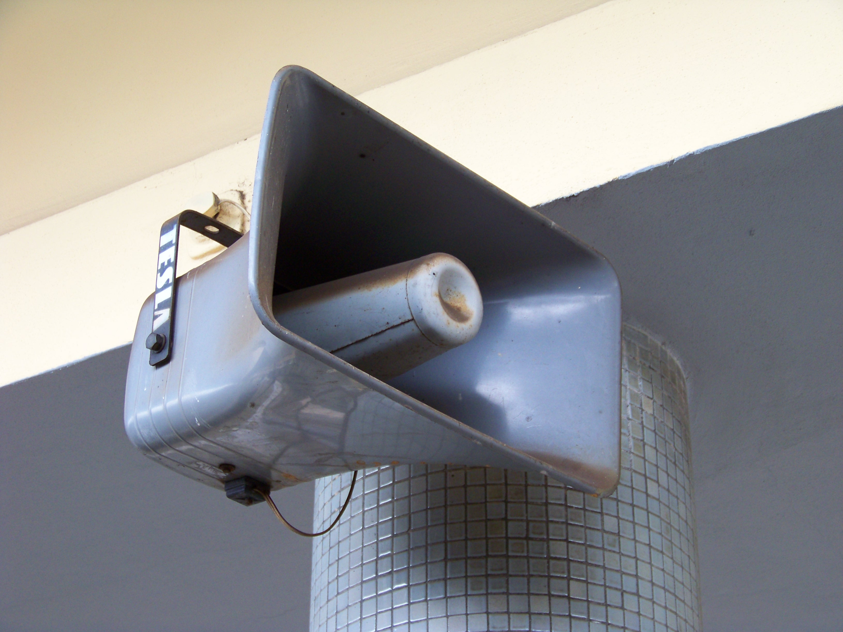 A public address horn speaker in a train station in Smíchov, Prague, the Czech Republic. This type of speaker, called a reflex or reentrant horn, or bullhorn, is a type of horn loudspeaker. Horns are widely used as speakers in public address systems because they are more efficient, typically able to produce 10 times the sound energy of cone speakers from a given amplifier output. In this type of speaker, a small metal diaphragm is vibrated by an attached coil of wire in a magnetic field, creating sound waves, which are conducted to the outside air through a flaring acoustic horn duct. Since the horn must be several feet long, to make it more compact the sound path is "folded" into a zigzag pattern, with the sound passing through a narrow central duct to a concentric backward duct, and then out through the flaring outer horn. Bullhorns have very poor frequency response, typically from 300-400 Hz to 5 kHz. However this can actually be an advantage in public address systems, since it matches the frequency distribution of the human voice, any background noise outside this bandwidth is attenuated.